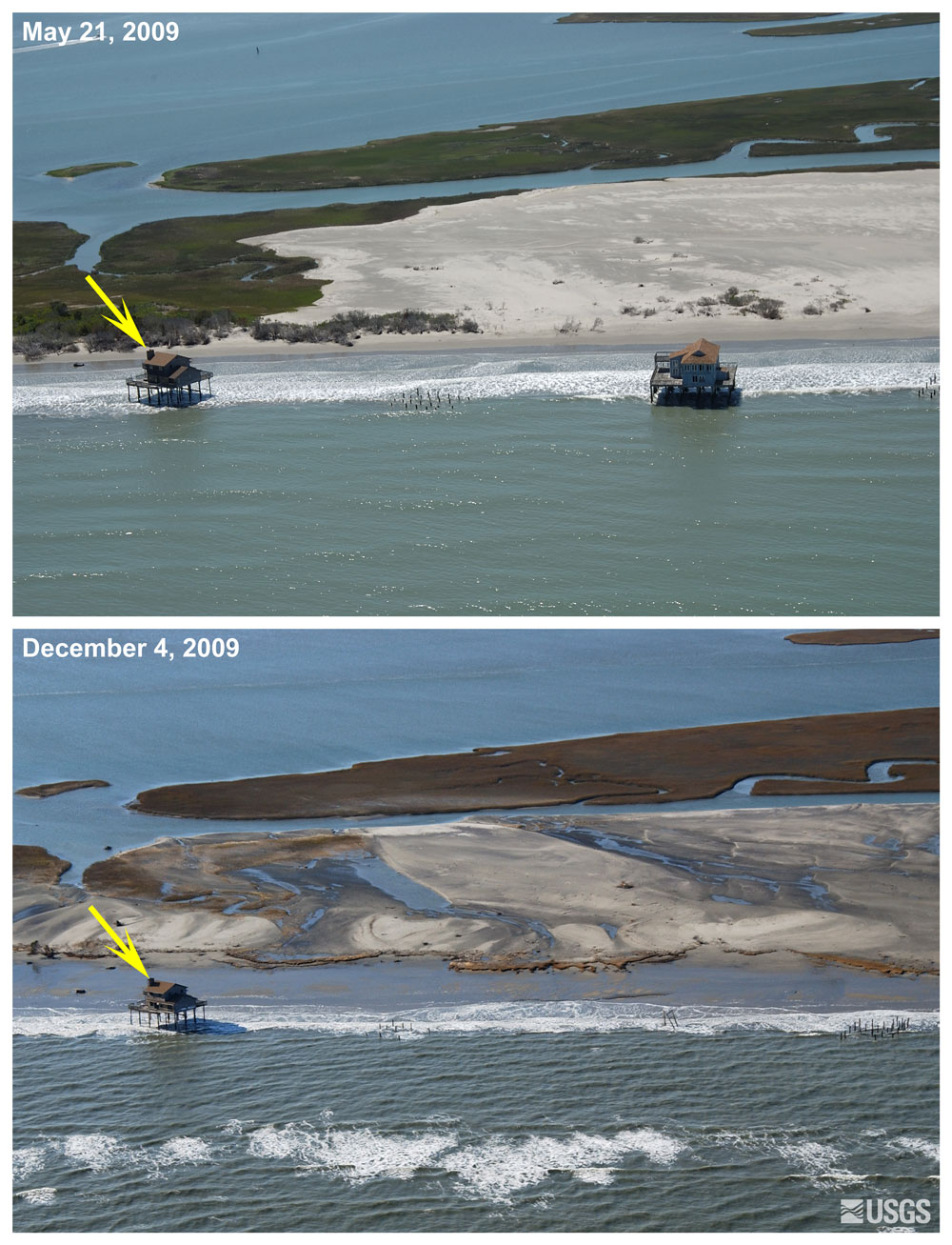 Oblique aerial photography from Cedar Island, VA on May 21, 2009 (top) and December 4, 2009 (bottom), roughly two weeks after the storm. The yellow arrows point to the same location in each photograph. This location is characterized by extreme erosion, to the point where the small beach has disappeared and an overwash deposit has been eroded exposing, in places, an underlying marsh surface. This response suggests that the beach system may have been inundated during some part of the storm. At this time we do not know if the missing house was lost during this storm or removed prior. No debris is evident in the photo, another indication of inundation regime if, in fact, the house was lost during Nor’Ida.